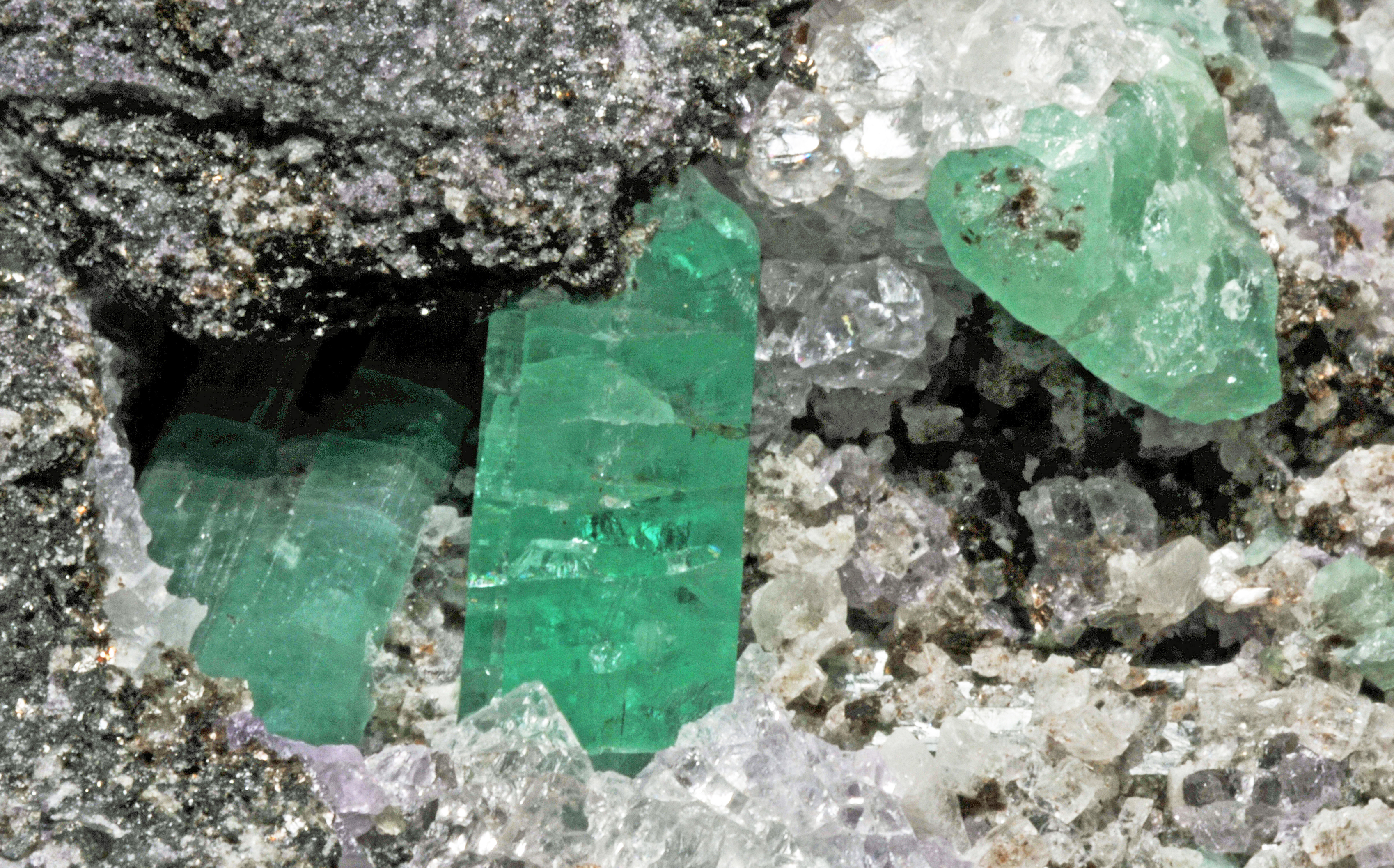 crystals of beryl var. emerald, crystals of calcite, crystals of pyrite : Dayakou emerald Mine, Malipo County, Wenshan Autonomus Prefecture, Yunnan Province, China